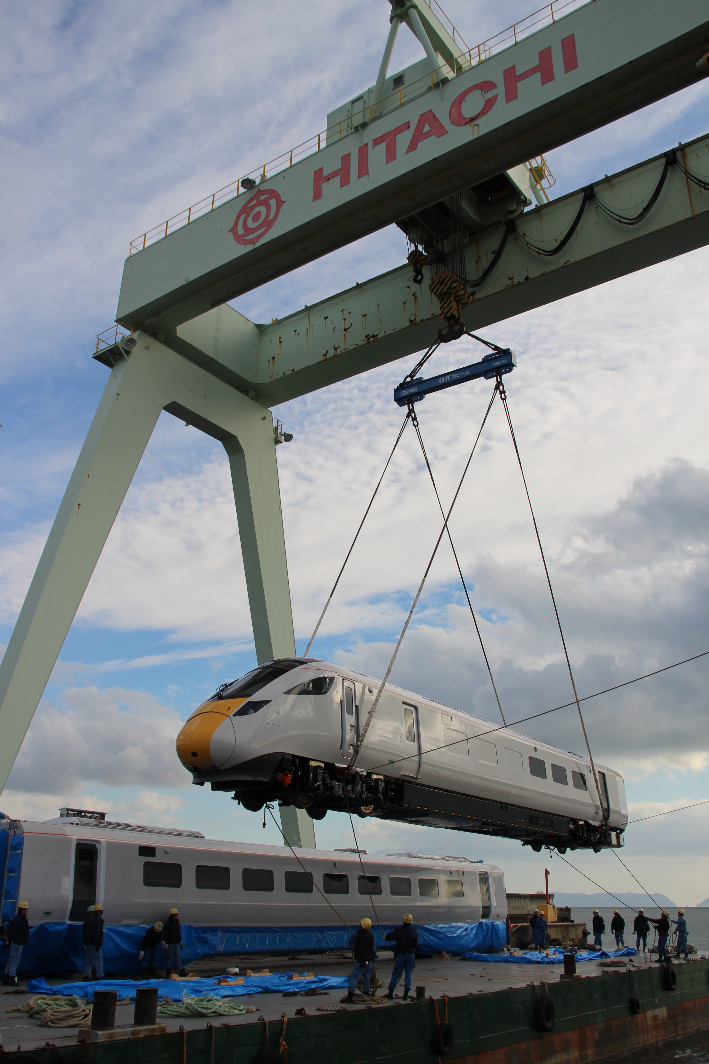 The train is the first pre-series train for the UK's Intercity Express Programme. It has been manufactured in Hitachi Rail's Kasado factory (Japan) and was shipped from there on 7th January 2015. The train is set to arrive in the UK in March 2015 for subsequent testing.